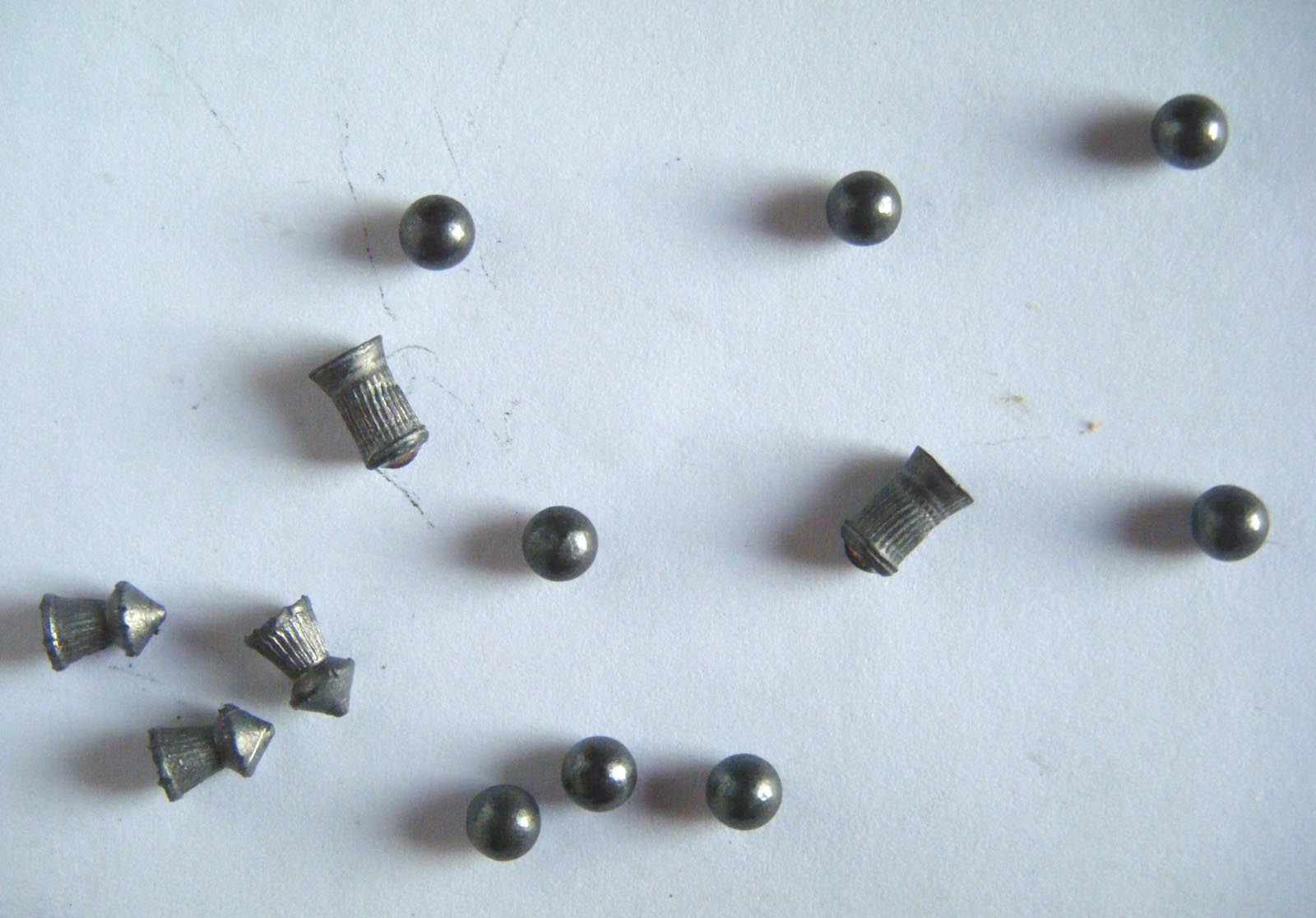 Balls for air guns